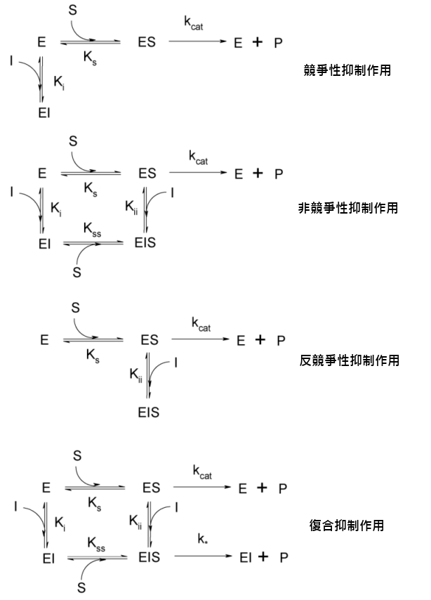 Chinese version of inhibition reactions types of enzyme inhibition